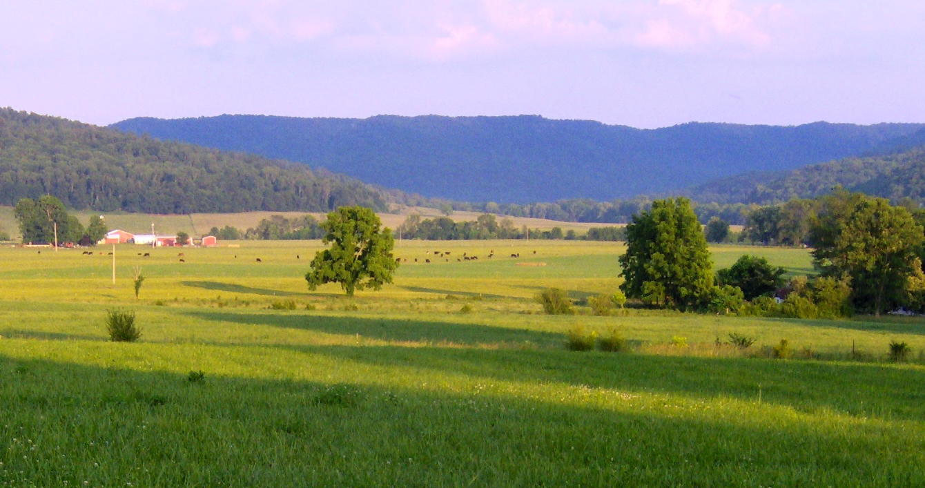 View across the Valley of the Three Forks of the Wolf River in Fentress County, in the U.S. state of Tennessee. The Cumberland Plateau spans much of the horizon in the distance. This view is from the Wolf River Cemetery, looking southeast. Coordinates: 36.54717 -84.95408